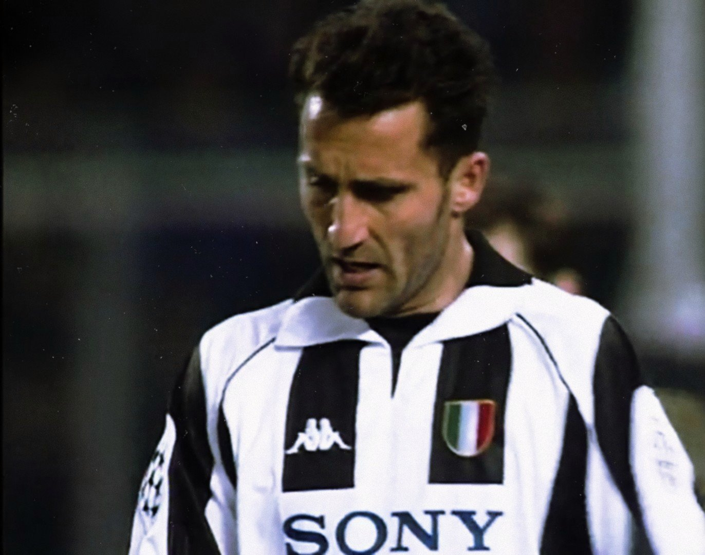 Angelo Di Livio playing for Juventus in 1998